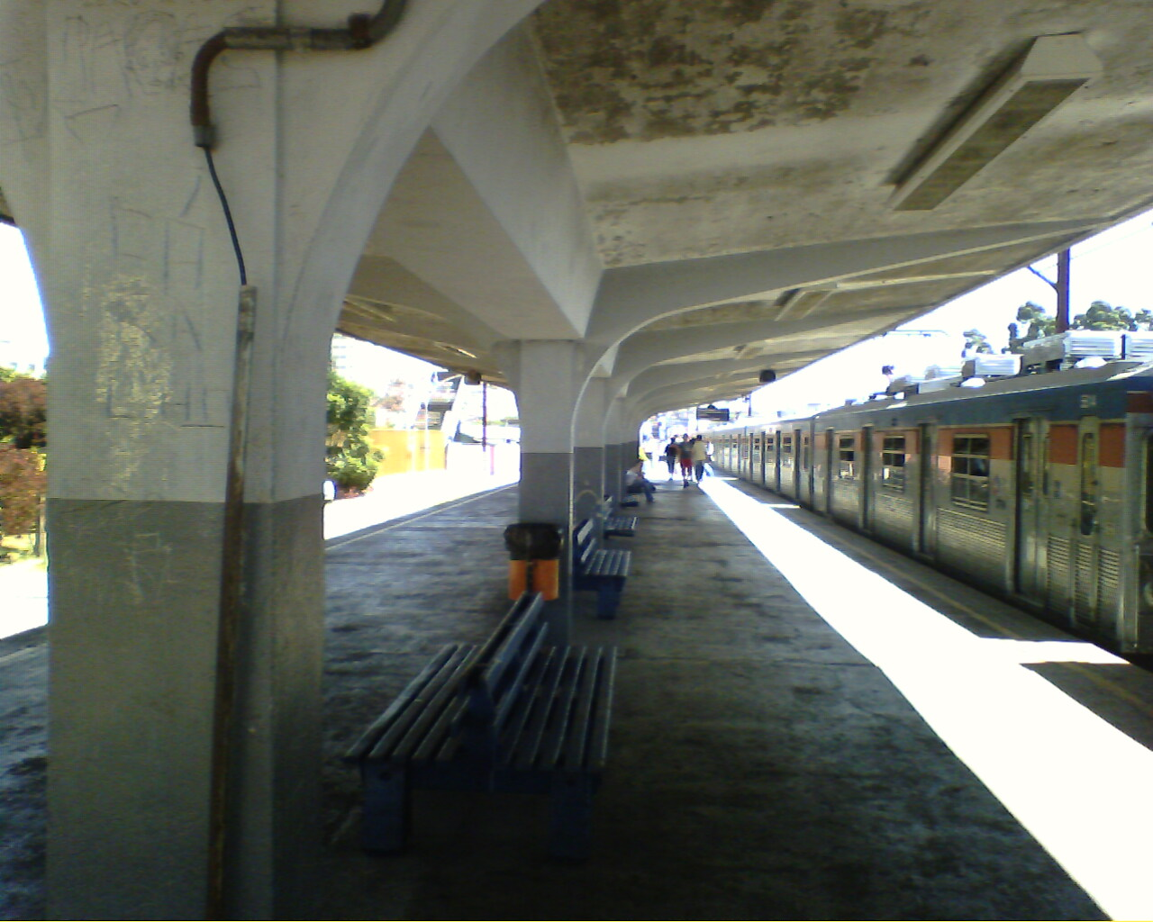 Description: Engenheiro Goulart Train Station in Sao Paulo, Brazil (04) Author: Bruno Bicalho Date: March 30, 2007 Camera: Mobile Phone Gradiente GF-500